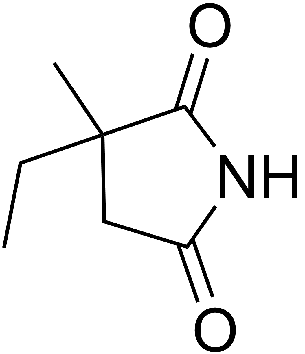 Chemical structure of ethosuximide (3-ethyl-3-methyl-pyrrolidine-2,5-dione). Created using ACD/ChemSketch 8.0 and The GIMP.